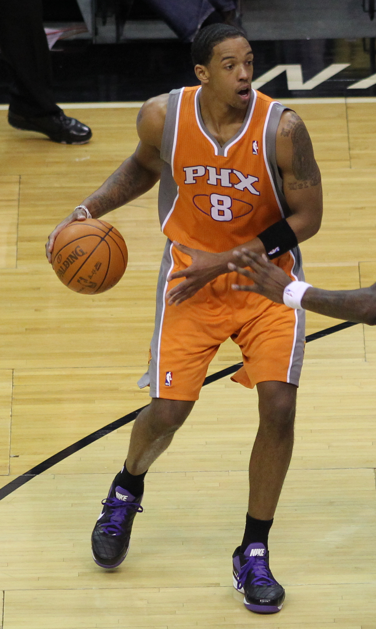 Washington Wizards v/s Phoenix Suns January 21, 2011